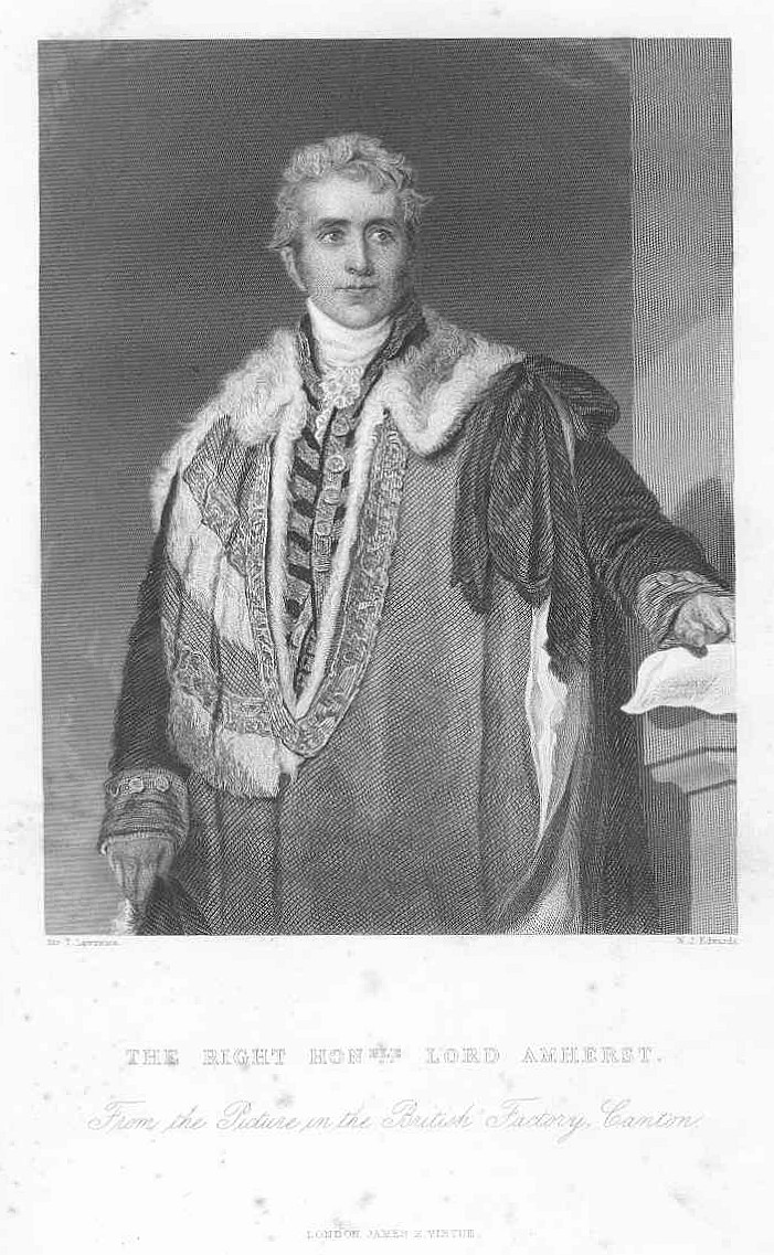 Portrait of the Right Honorable William Pitt Amherst (1773–1857), Lord Amherst, Governor General of India: this image came from a picture by Sir Thomas Lawrence, Principle Painter in Ordinary to His Majesty P.R.A., painted for the British Factory at Canton upon his Lordship's return from his Embassy to China. It was engraved by Charles (Chas.) Turner, Mezzotinto Engraver in Ordinary to His Majesty, and published on May 24, 1824 by Mess.rs Colnaghi Son & Co Printsellers to the King Pall Mall East.[2]